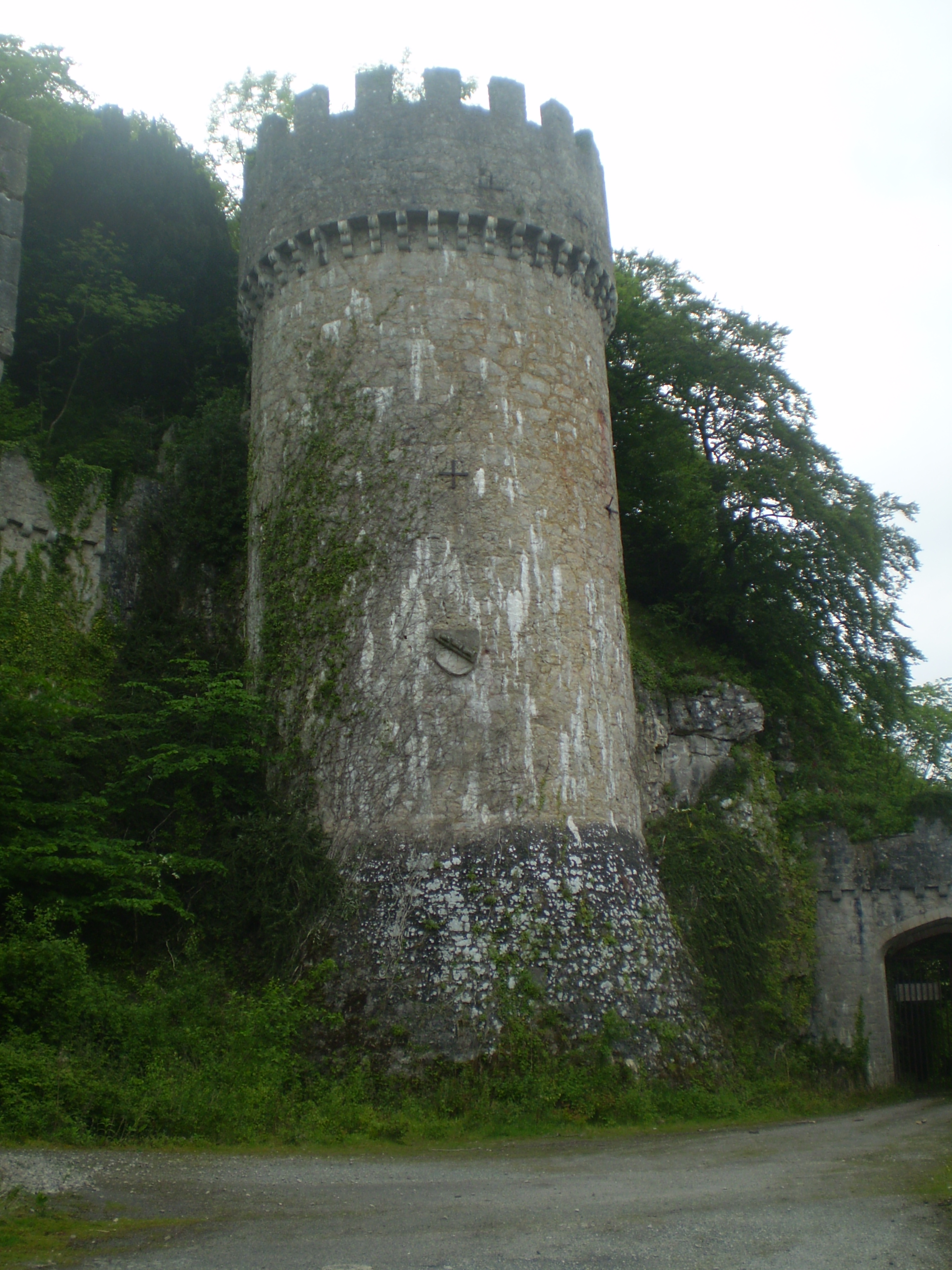 hesketh tower, gwrych castle